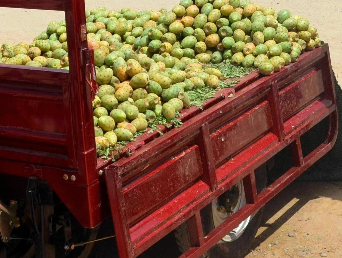 Pipal of Moroccoلمغربية: كرموس نصارى ولى لهندية